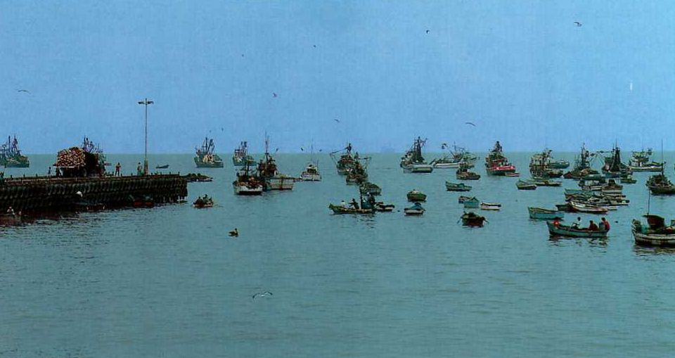 The fishing port of Chimbote